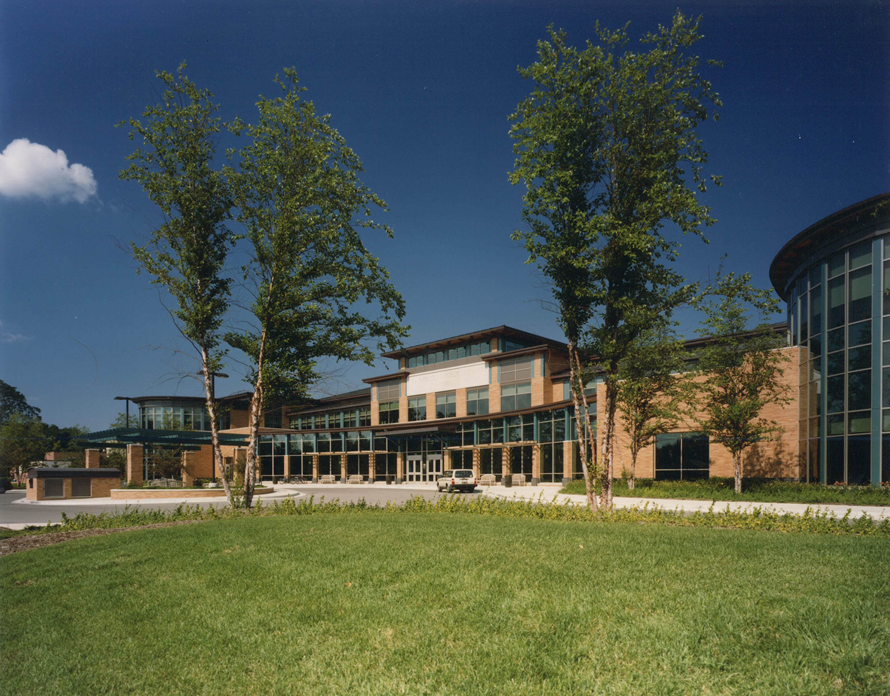 Carmel Clay Public Library, Carmel, Indiana, located at 55 Fourth Avenue SE. Photo by Taylor Photo.